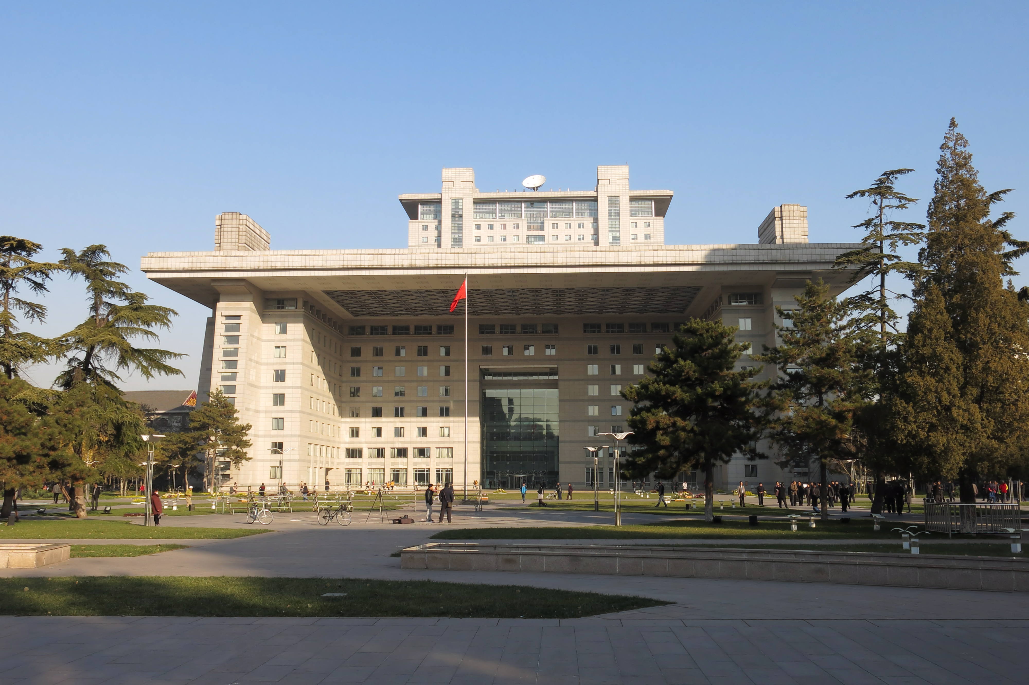 The library of Beijing Normal University photographed from the main road running along the south of the campus on a lovely sunny morning.